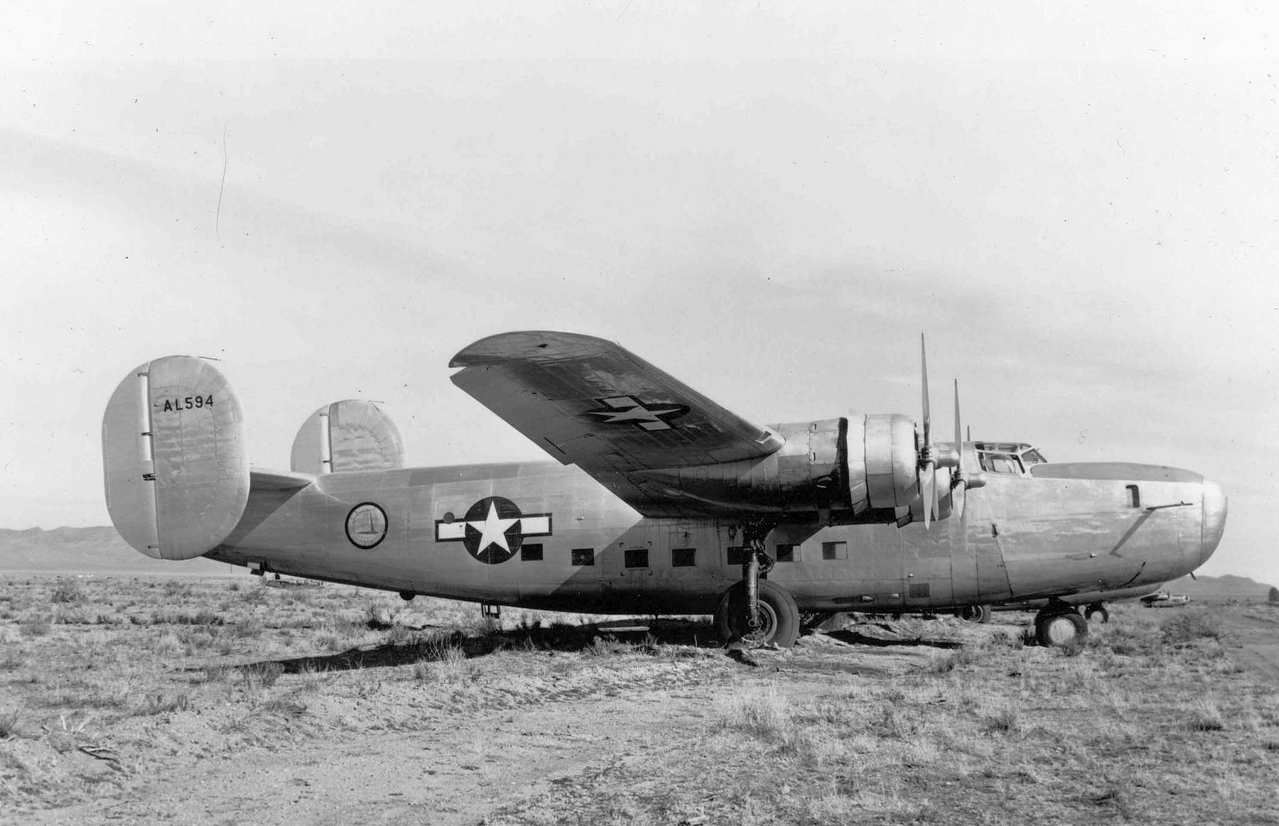 LB-30 Liberator with RAF Serial under Air Transport Command